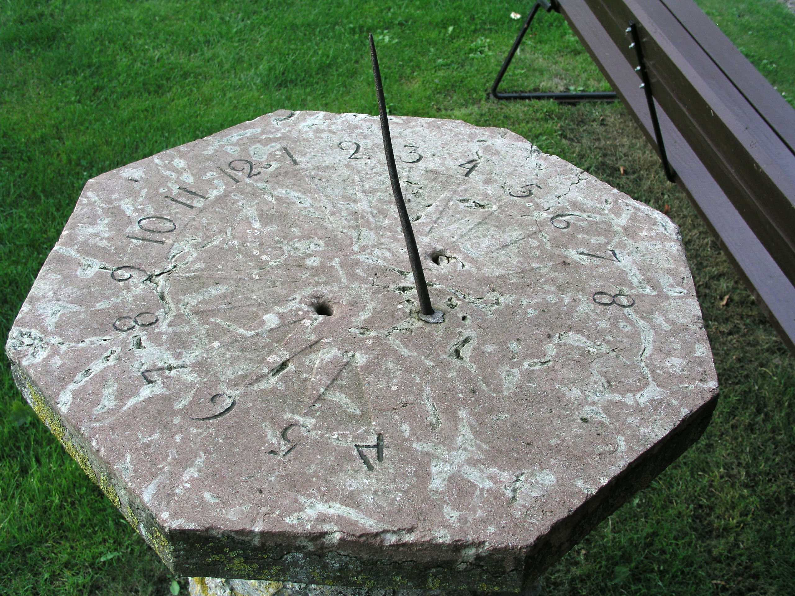 Sandby kyrka / church. Sundial. Mörbylånga, Öland. The photo was taken the 2nd of August 2005 by Håkan Svensson (Xauxa).